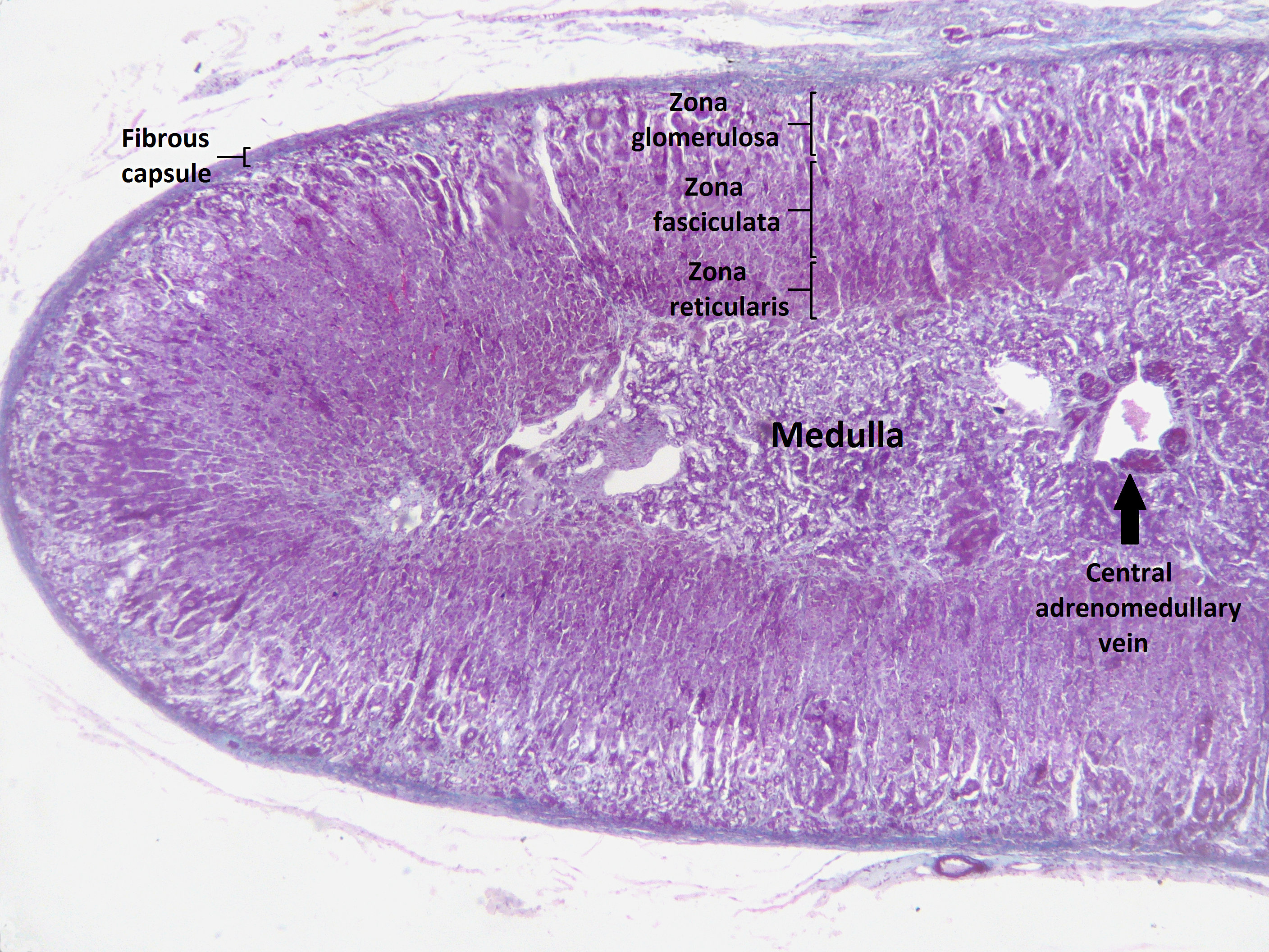 Digital camera shot though a microscope; human adrenal gland.